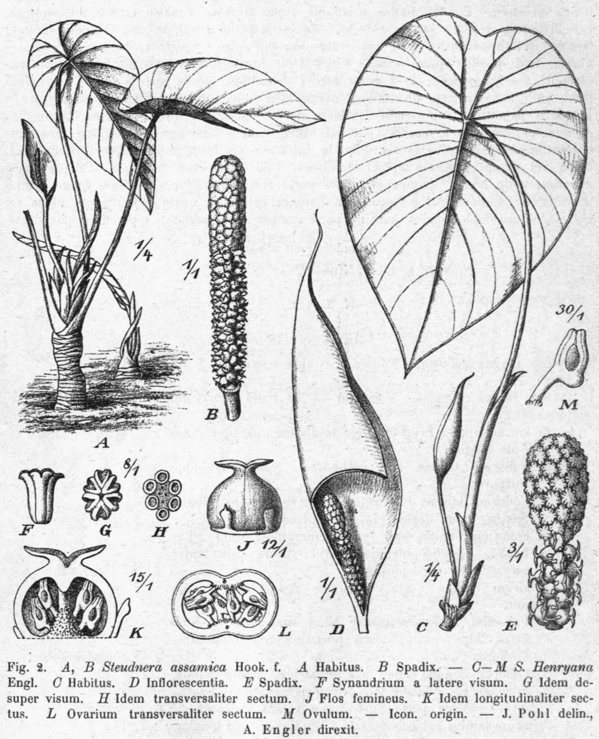 Steudnera assamica botanical drawing